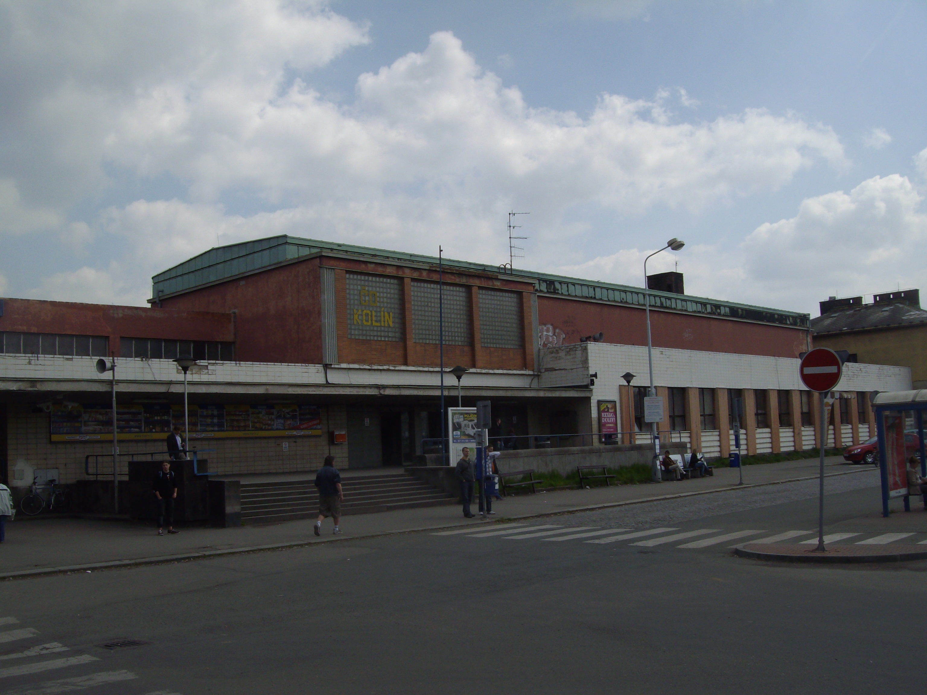 Railway station Kolín